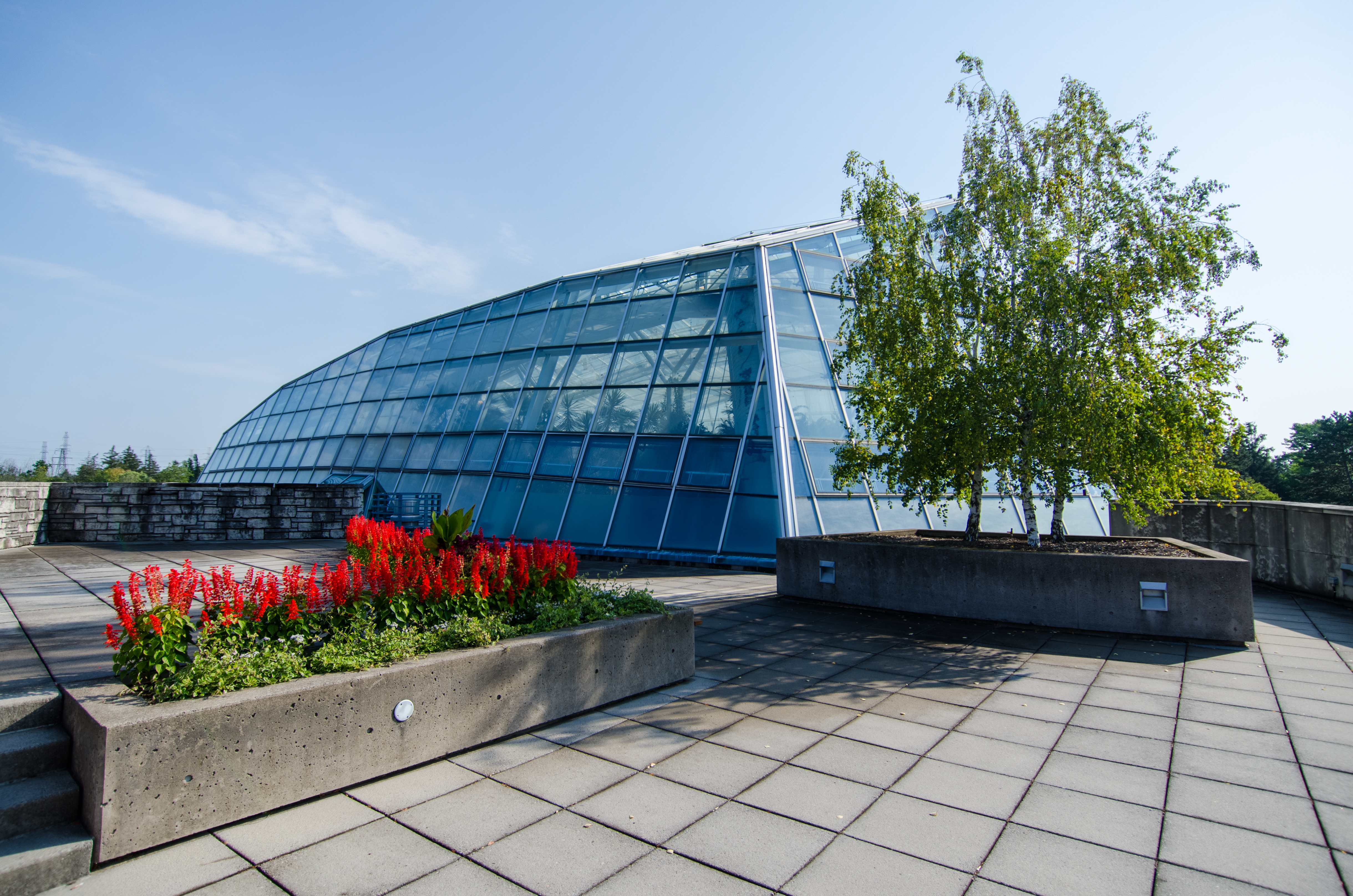 Seen in The Amazing Race Canada.